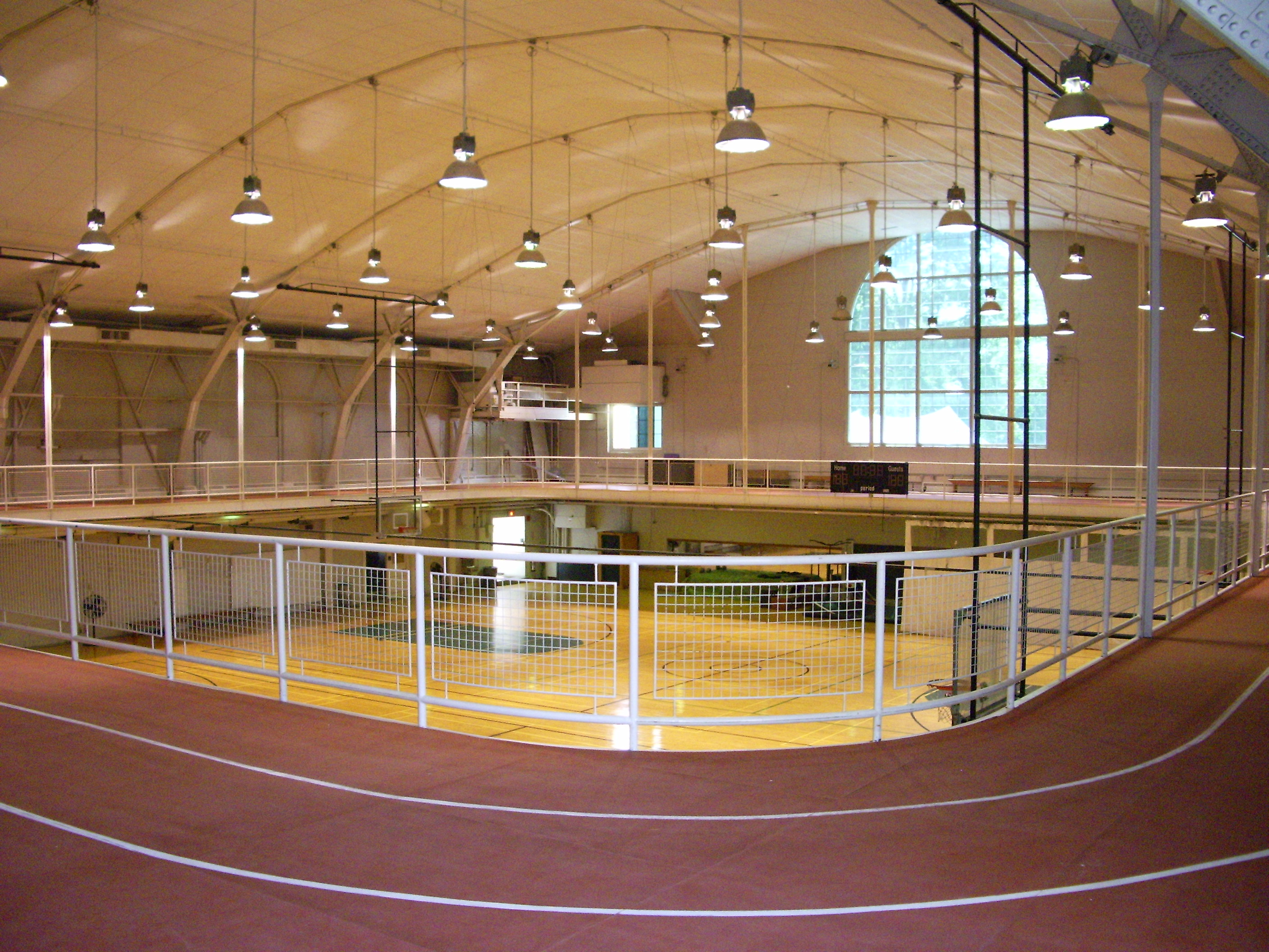 Photograph of the Alumni Gymnasium at the campus of Dartmouth College in Hanover, New Hampshire.